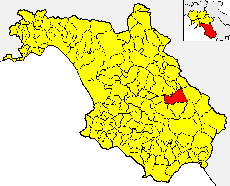 Locator map of the municipality of Teggiano (red) within the Province of Salerno